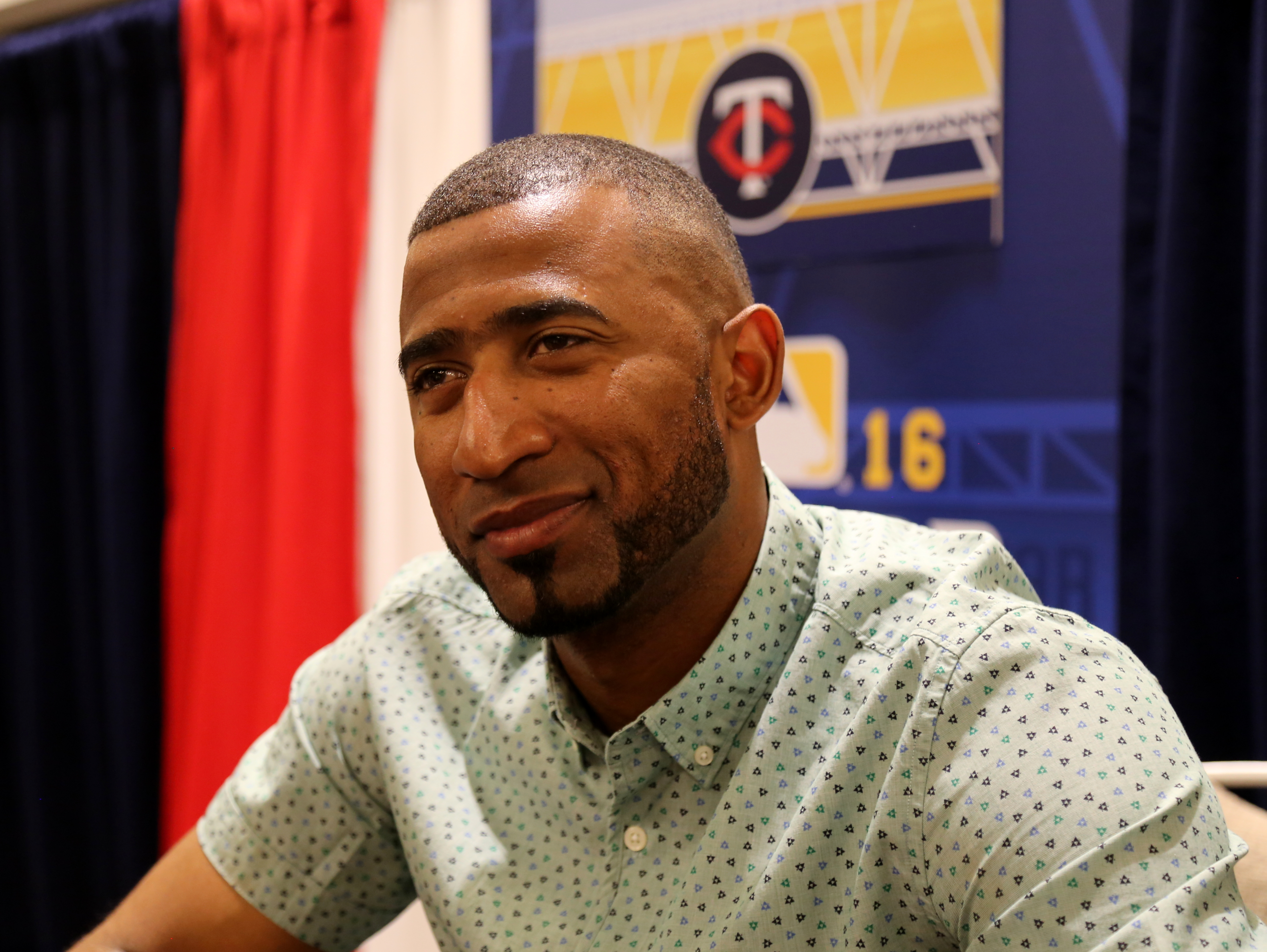 Twins infielder Eduardo Nunez talks to reporters at 2016 All-Star Game availability.